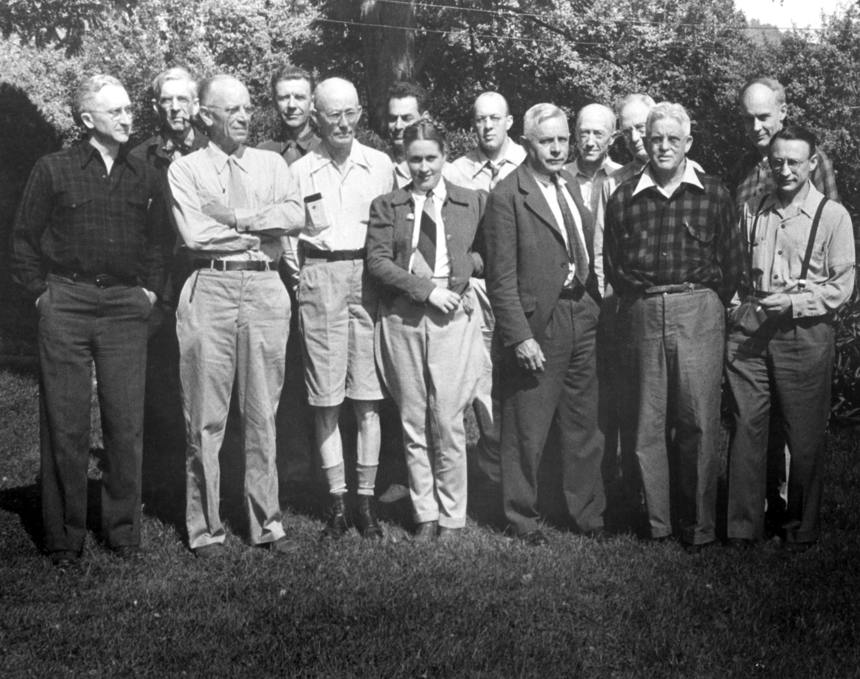 Aldo Leopold, 3rd from left, with other founding member of the Wilderness Society.